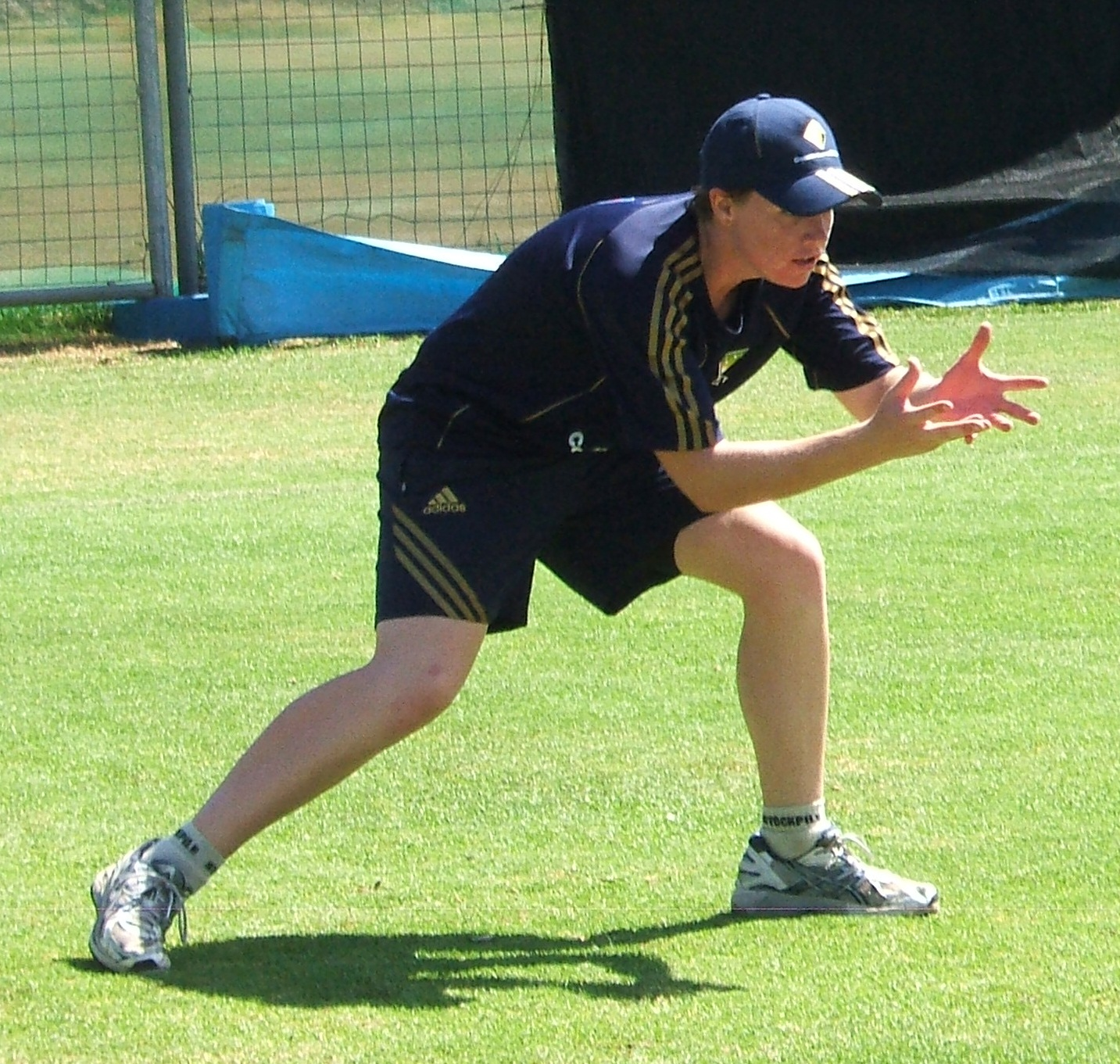 Named person engaging in named action at Adelaide Oval nets/training ground